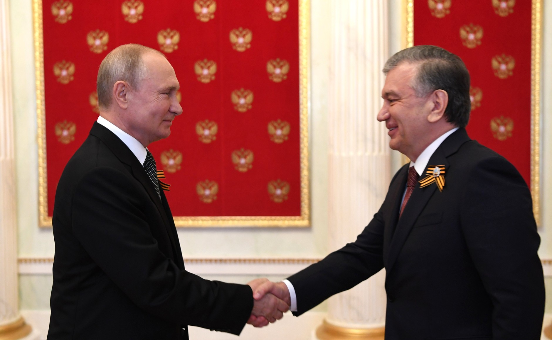 2020 Moscow Victory Day Parade Аҧсшәа: Военный парад на Красной площади в Москве 24 июня 2020 года